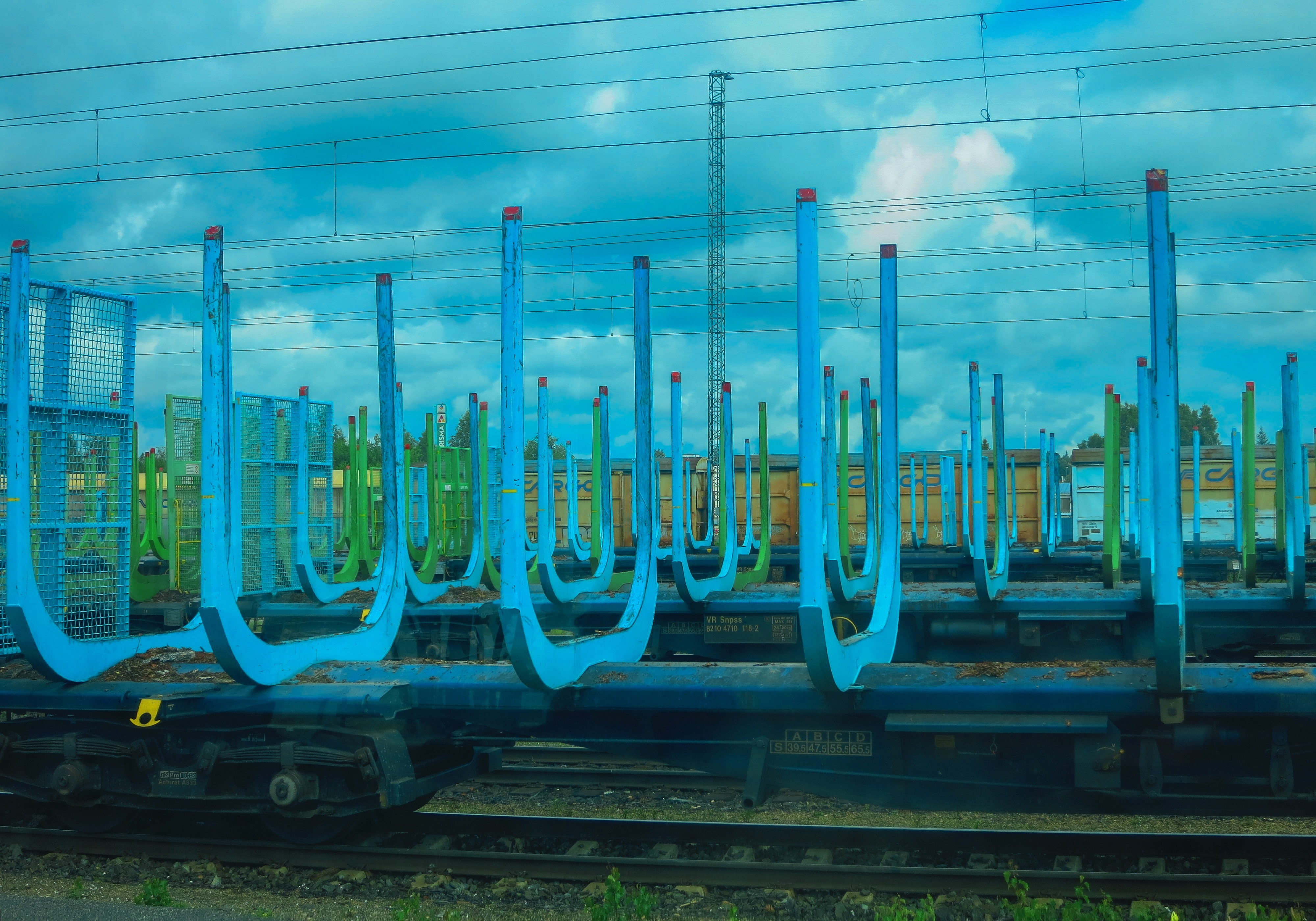 Log trains in Kemi station. (Lapland, Finland)